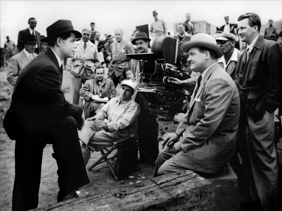 Director Joseph H. Lewis (seated center) with Glenn Ford and Barry Kelley on the set of The Undercover Man (1949)